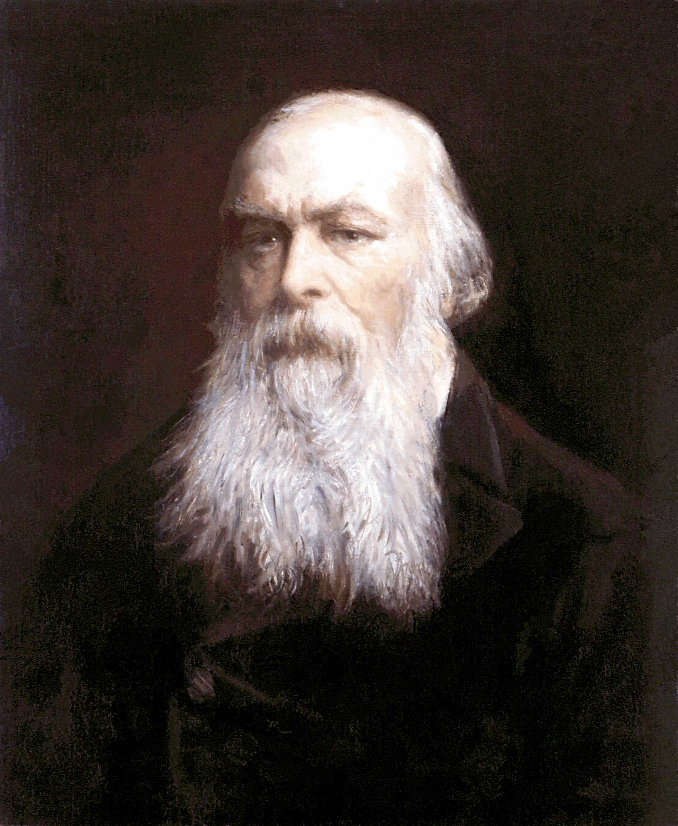 Cornelis Willem Opzoomer (1821-1892) Dutch jurist, philosopher, logician and theologian